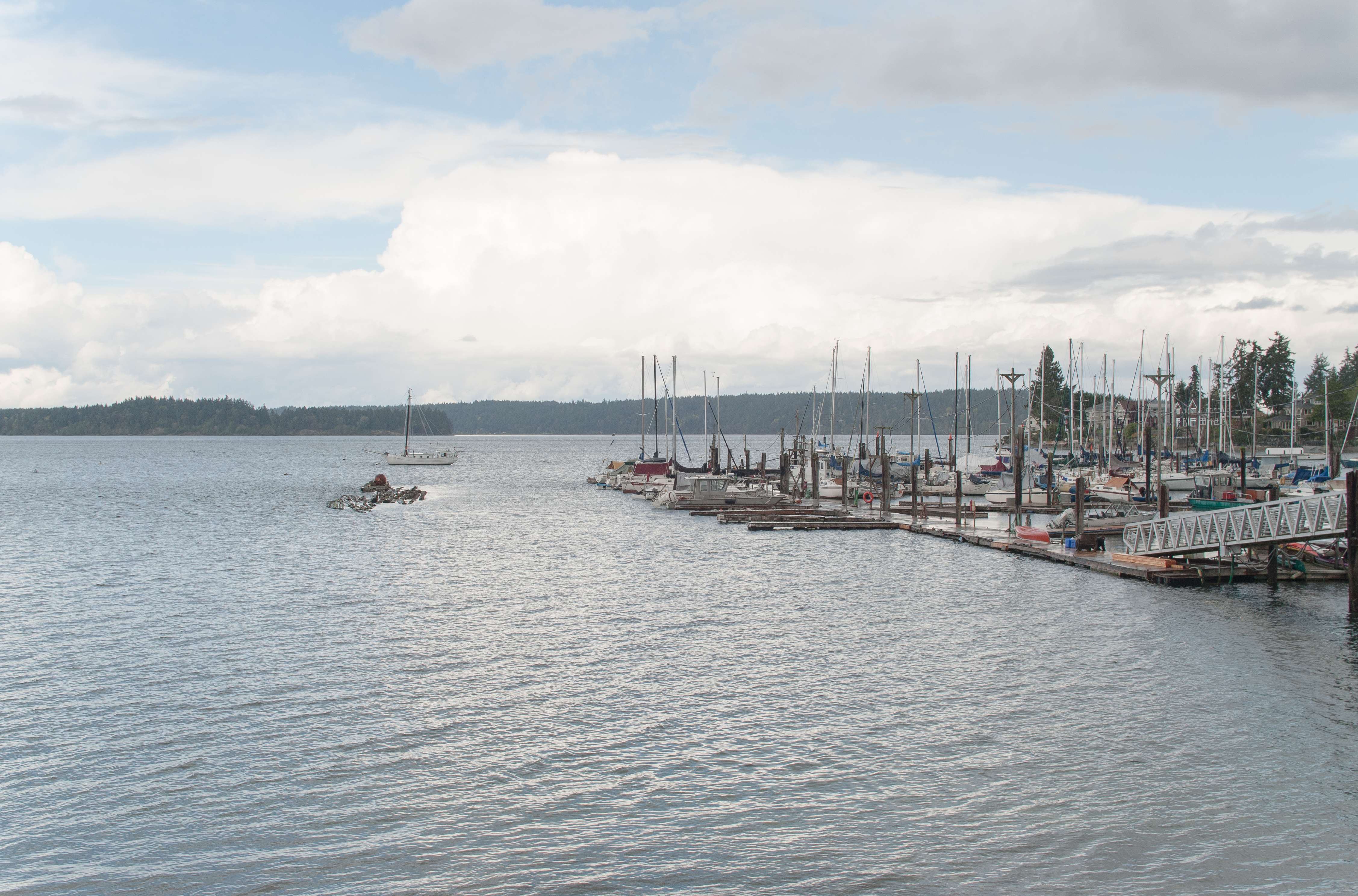 Boston Harbor and Marina, Boston Harbor, Washington.